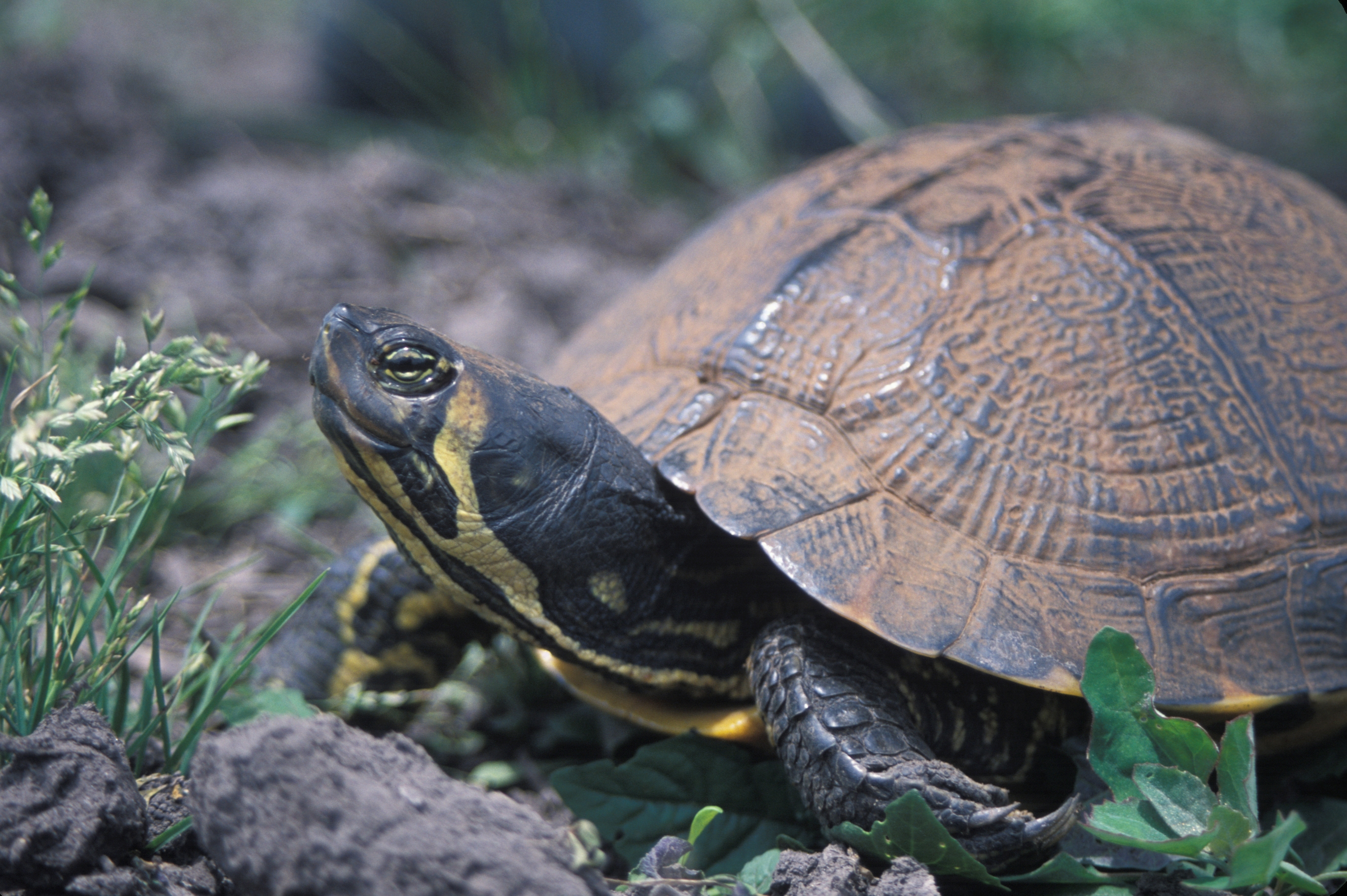 Yellow-bellied slider (Trachemys scripta scripta)